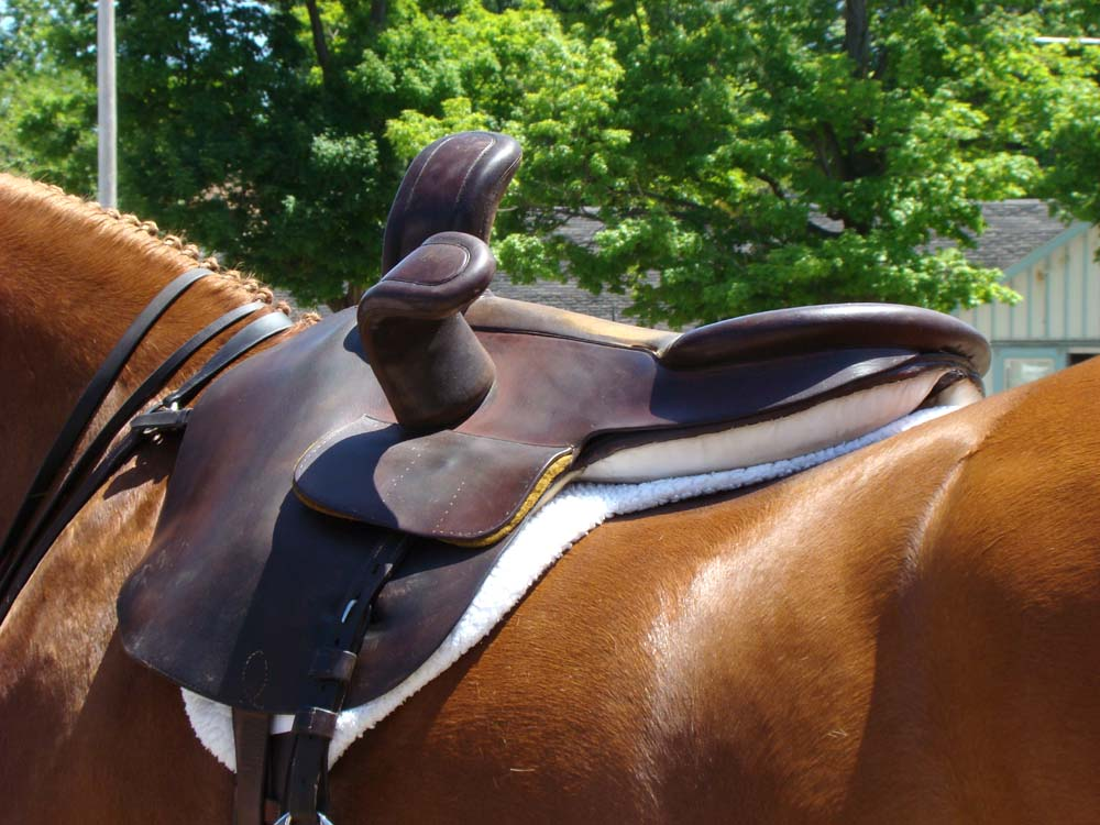 A sidesaddle on a horse at the 2007 Devon Horse Show in Devon, PA, USA.